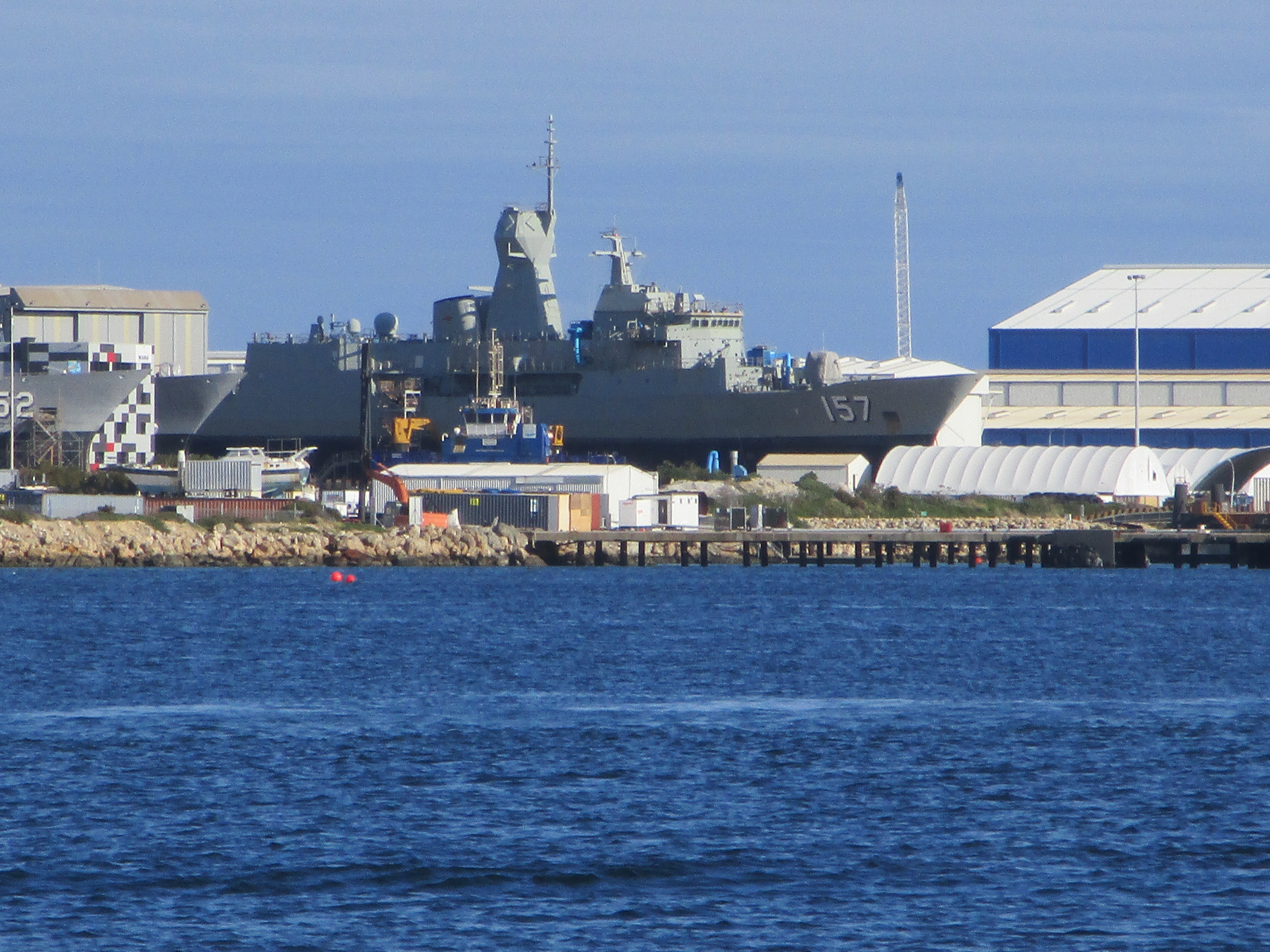 HMAS Perth (FFH 157) at the Australian Marine Complex, Henderson, Western Australia, undergoing the Anzac Mid-Life Capability Assurance Program. The image is taken from the northern sea wall of Jervoise Bay Boat Harbour.